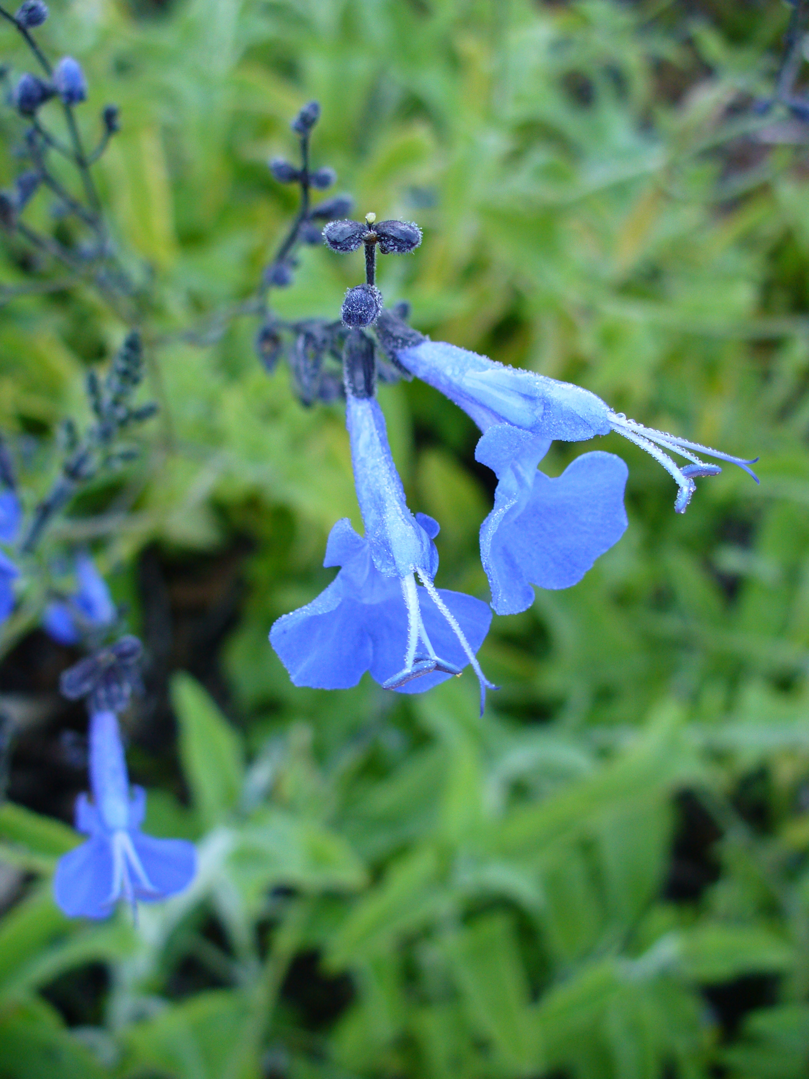 Botanic Garden, Cabrillo College, Aptos, CA. Photographed during the Salvia Summit, 1-2 Aug 2008.